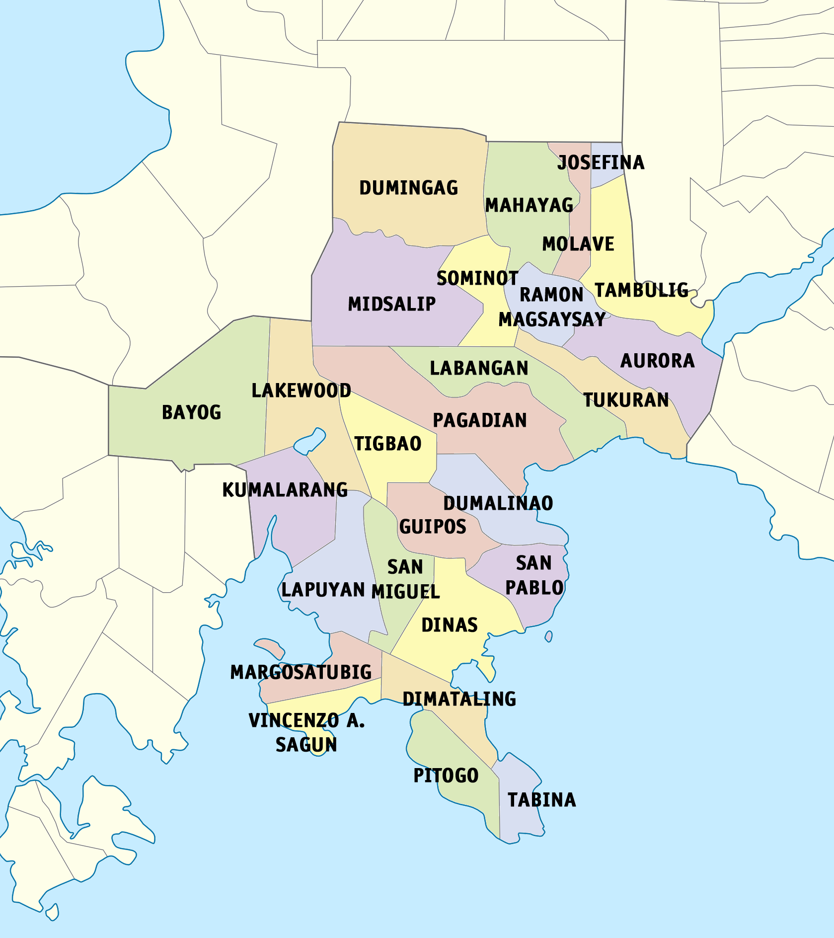 Political map of Zamboanga del Sur, Philippines